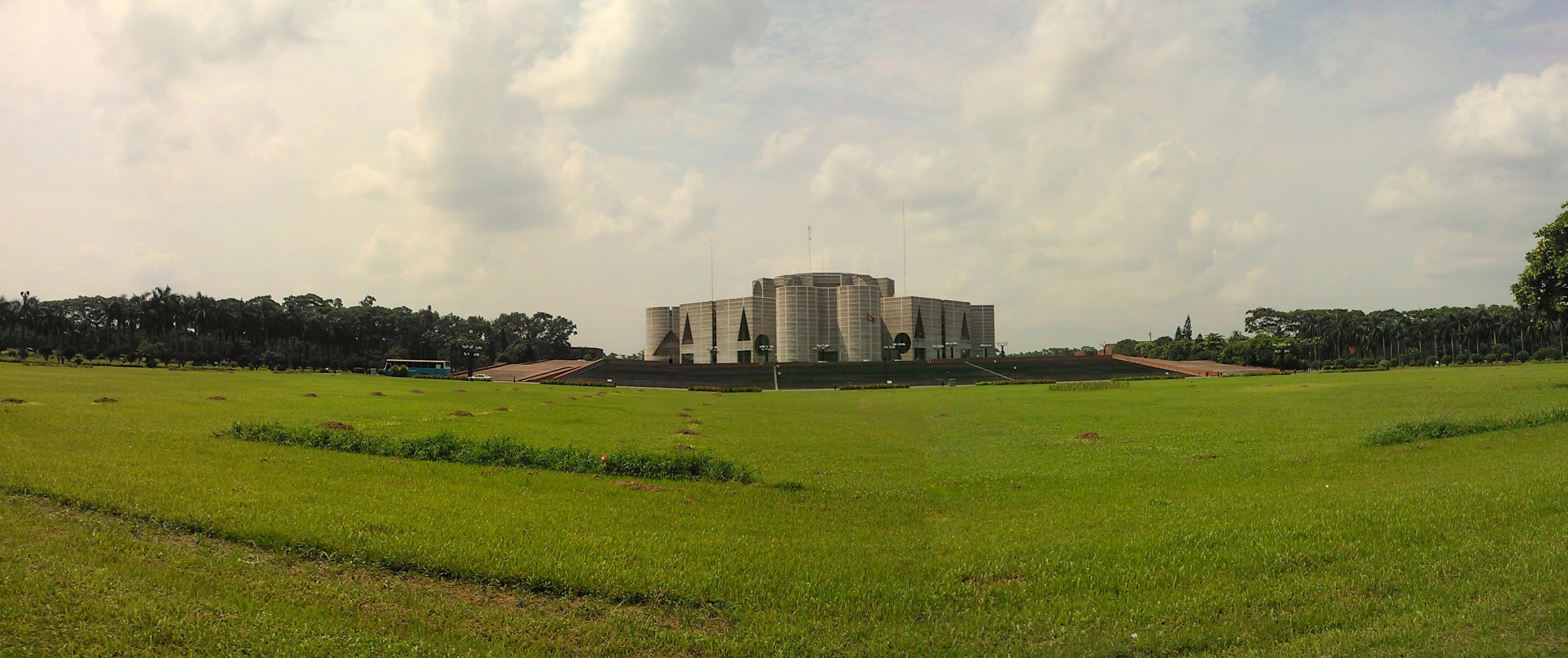 Jatiyo Sangsad Bhaban, Bangladesh.